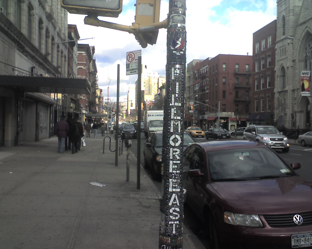 Fillmore East Streetpost, NYC